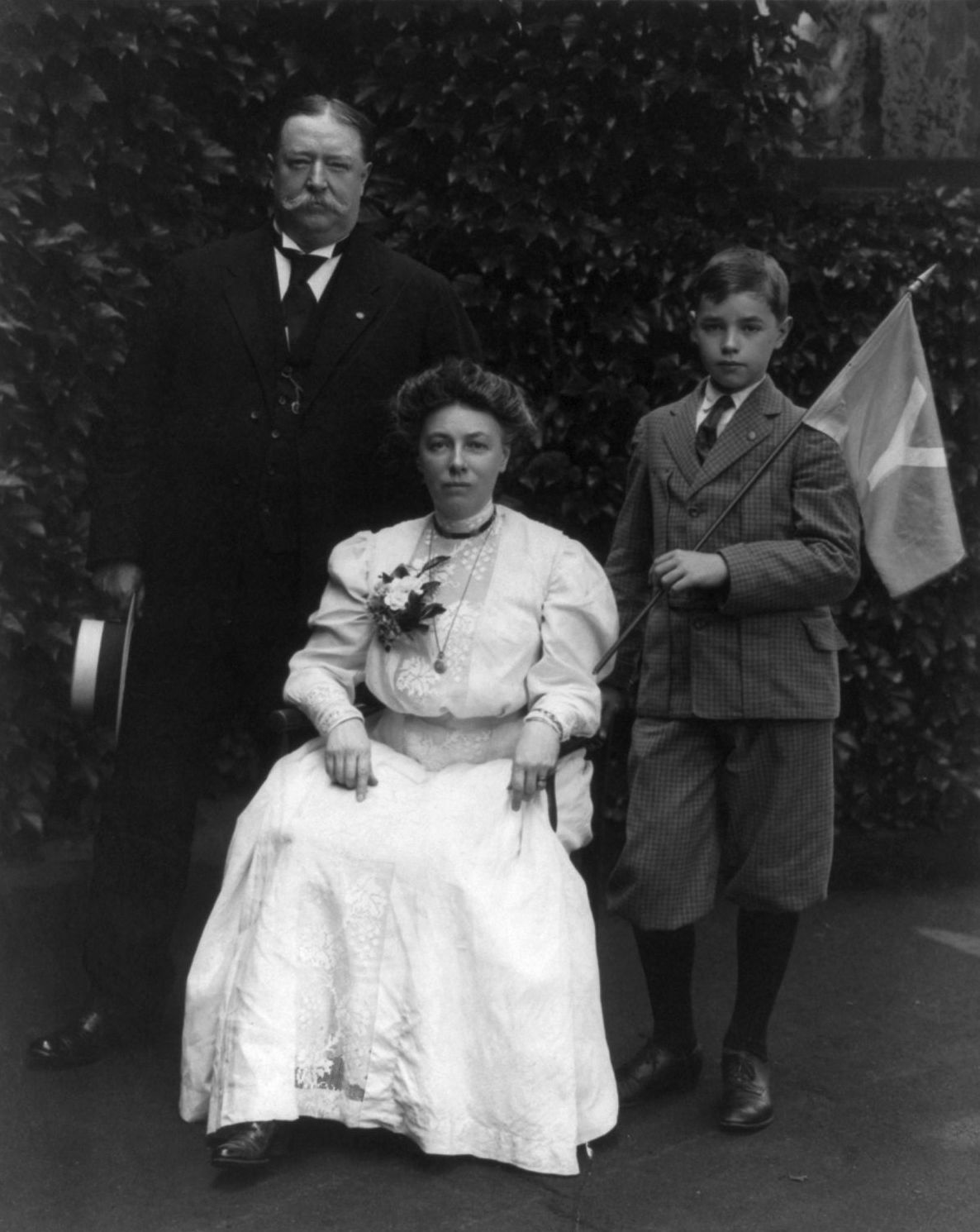 Mr. Taft and son standing; Mrs. Taft seated, outdoors. (cropped)